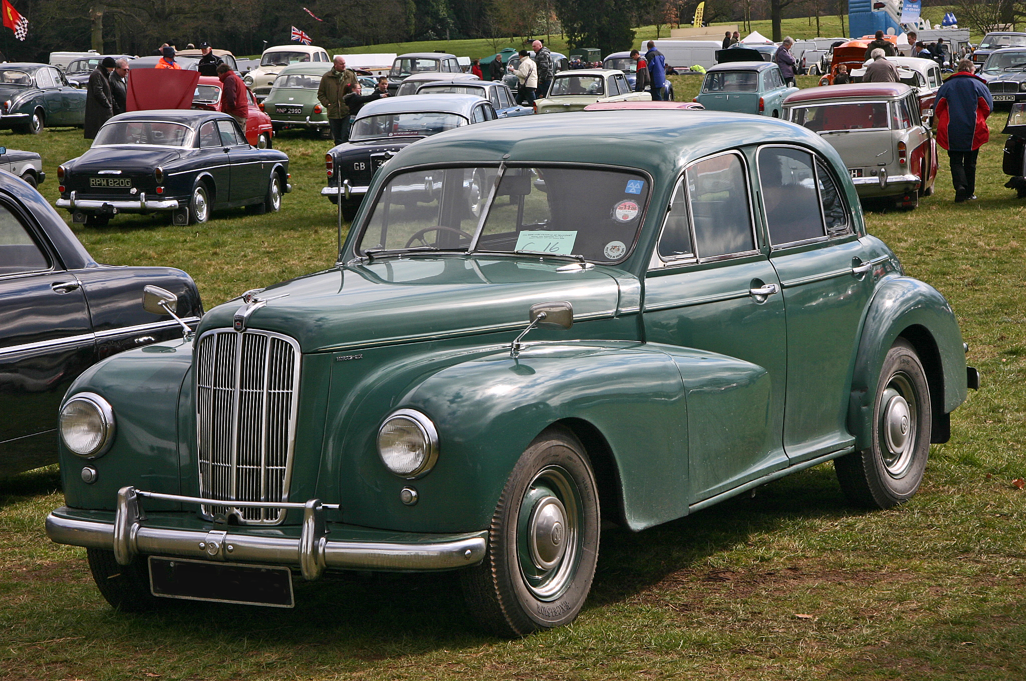 Morris Six Series MS. Launched in 1948 the Six Series MS was mostly a Series MO Oxford but with a longer bonnet containing a 2215cc OHC 6cylinder engine